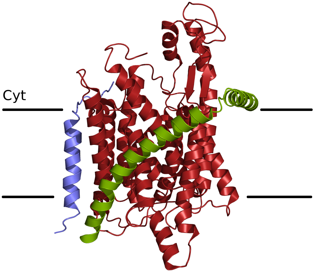 side view (Cyt = Cytosol) of the protein conducting channel, translocon, of Methanococcus jannaschii (PDB: 1rhz​). Shown are Sec61β (blue), SecE (green) and SecY (red)